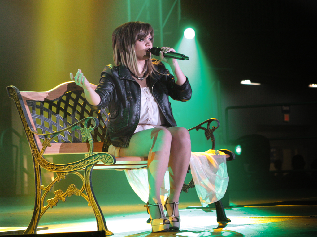 Cantante Puertorriqueña